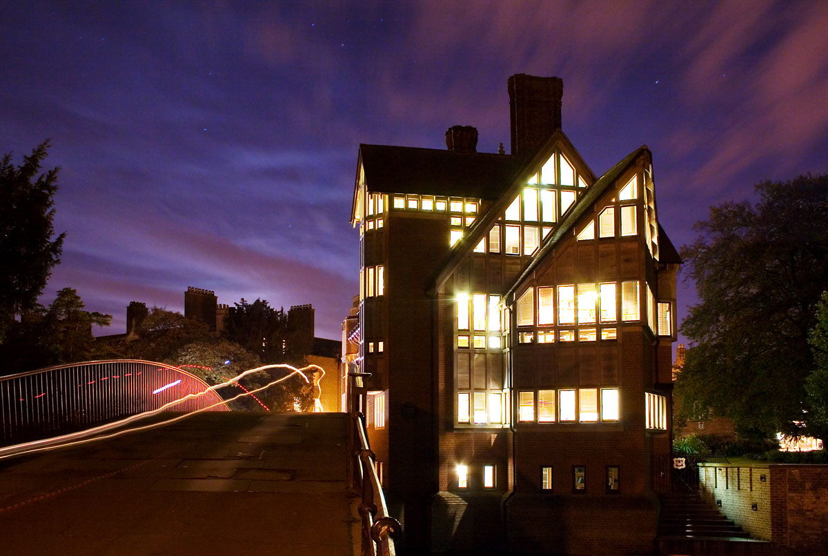 Jerwood Library, Trinity Hall Cambridge. Designed by the architects Freeland Rees Roberts. Photo taken with a narrow aperture and 30s long exposure. The trail of lights over the bridge are from the lamps of passing cyclists. Keywords: Cambridge, Library, Trinity Hall College.